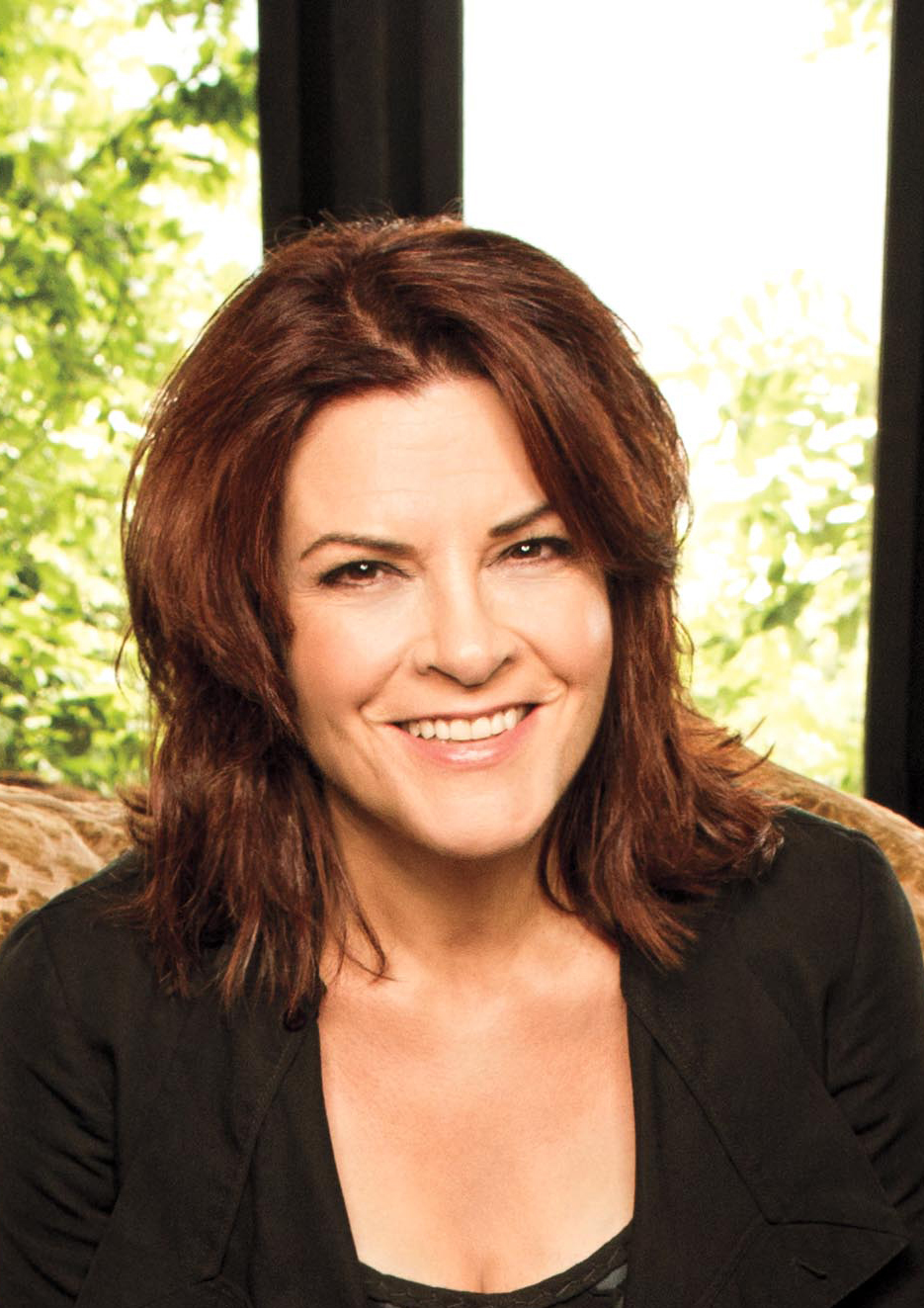 Rosanne Cash by Clay Patrick McBride